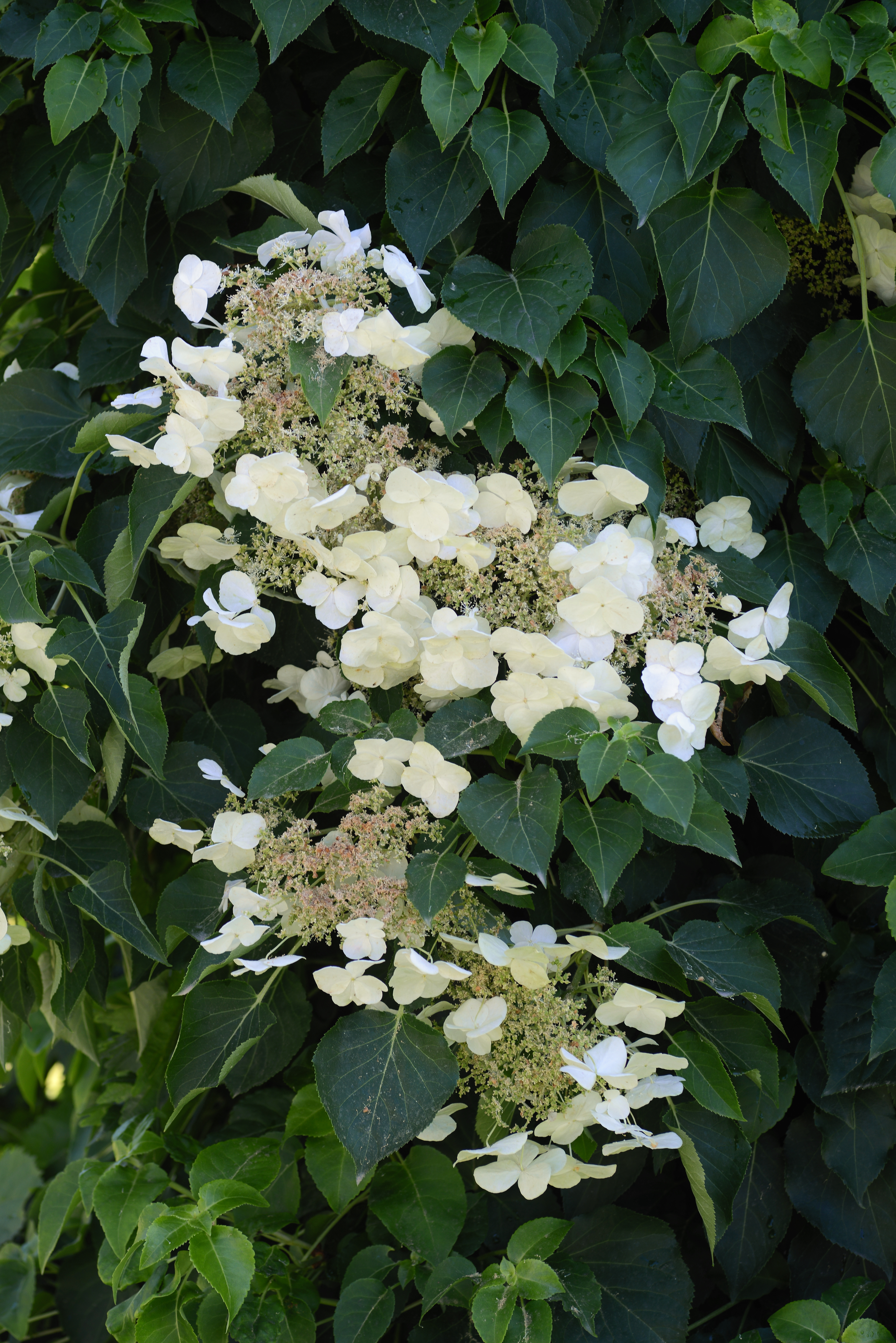 Flowers and leaves of Hydrangea anomala. Botanical Garden of Helsinki, Finland